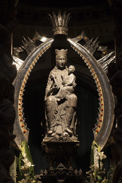 Solsona; Catedral; Catalunya, lleida; Spain; Cathedral. Interior. The chapel Capella de la Mare de Déu del Claustre. The altar. A statue. Madonna with Child. romanesque. ; photo: Paul M.R. Maeyaert; ; Ref: PM_107321_E_Solsona.jpg